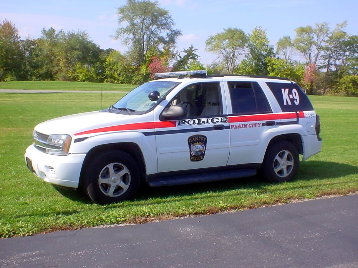 2006 Chevrolet TrailBlazer converted for police use, photographed October 11, 2009 by Adolphus79.